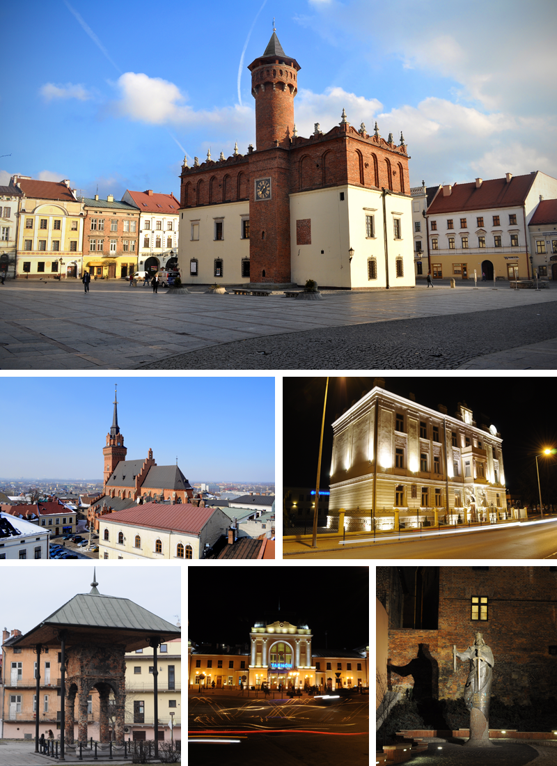 Collage of views of Tarnów